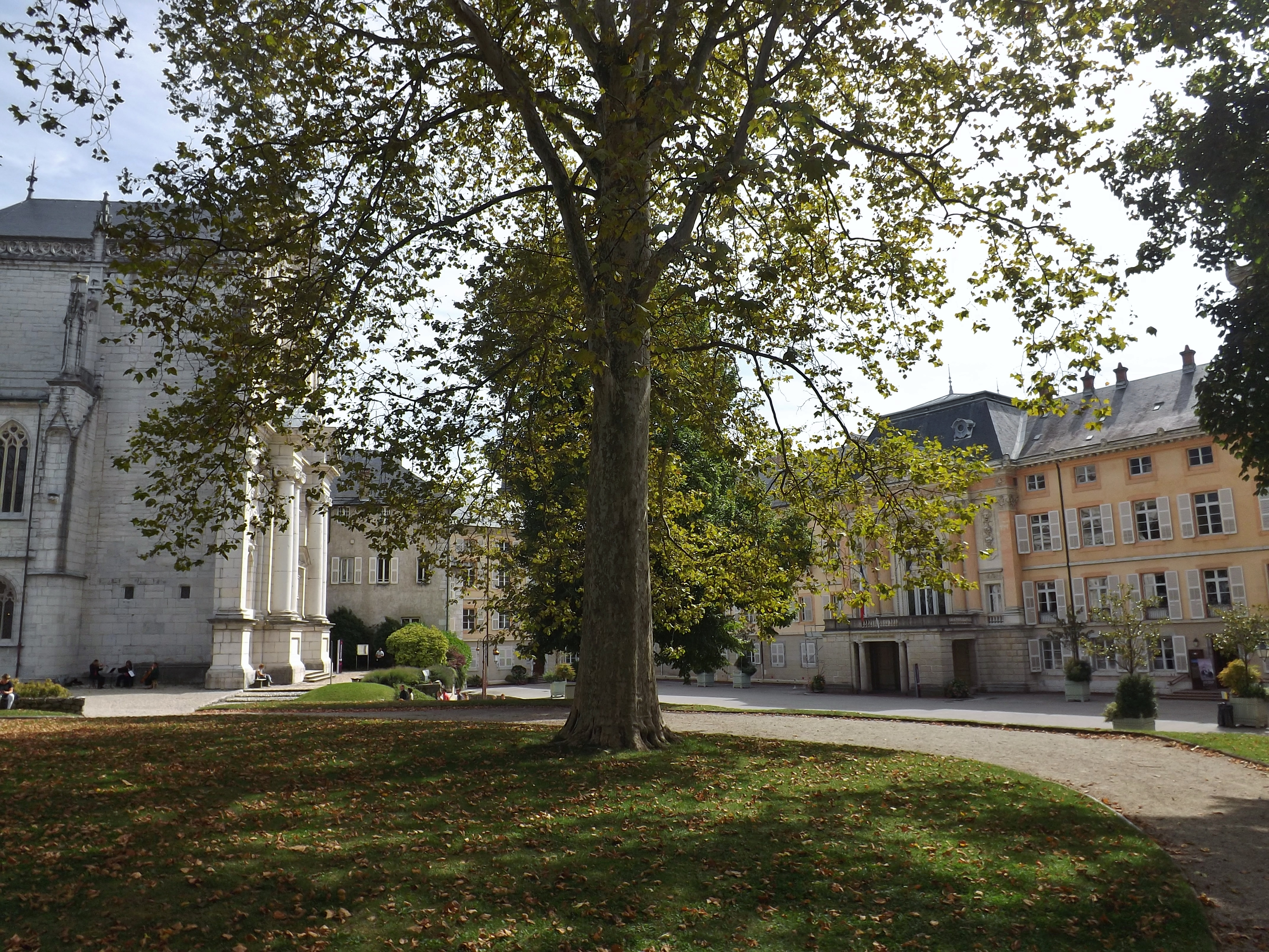 Sight of the Château de Chambéry plaza, with the Sainte-Chapelle on the left and the Aile du Midi on the right, in Chambéry, Savoie, France.